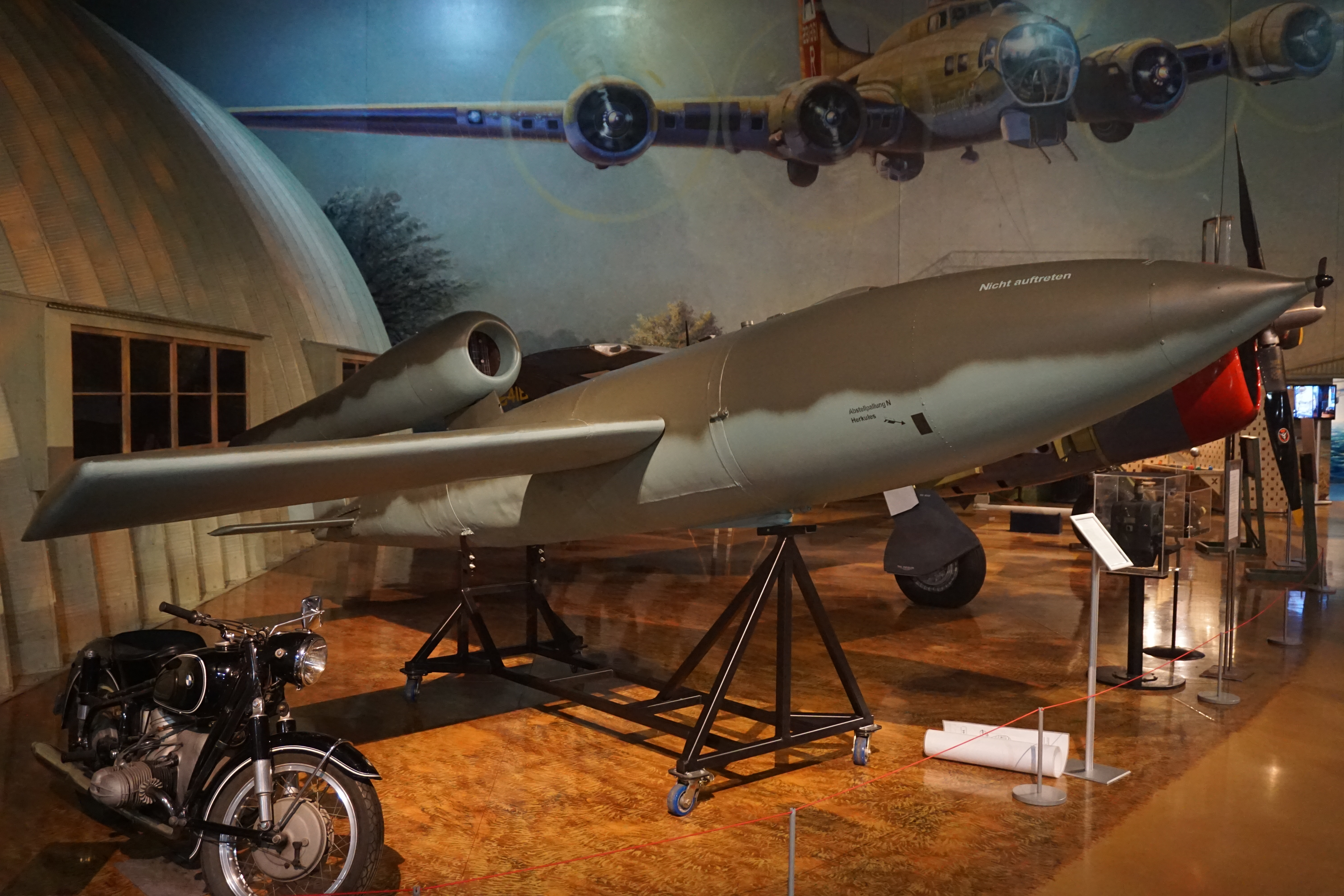 A V-1 flying bomb on display at the Air Zoo at Kalamazoo/Battle Creek International Airport in Portage, Michigan (United States).